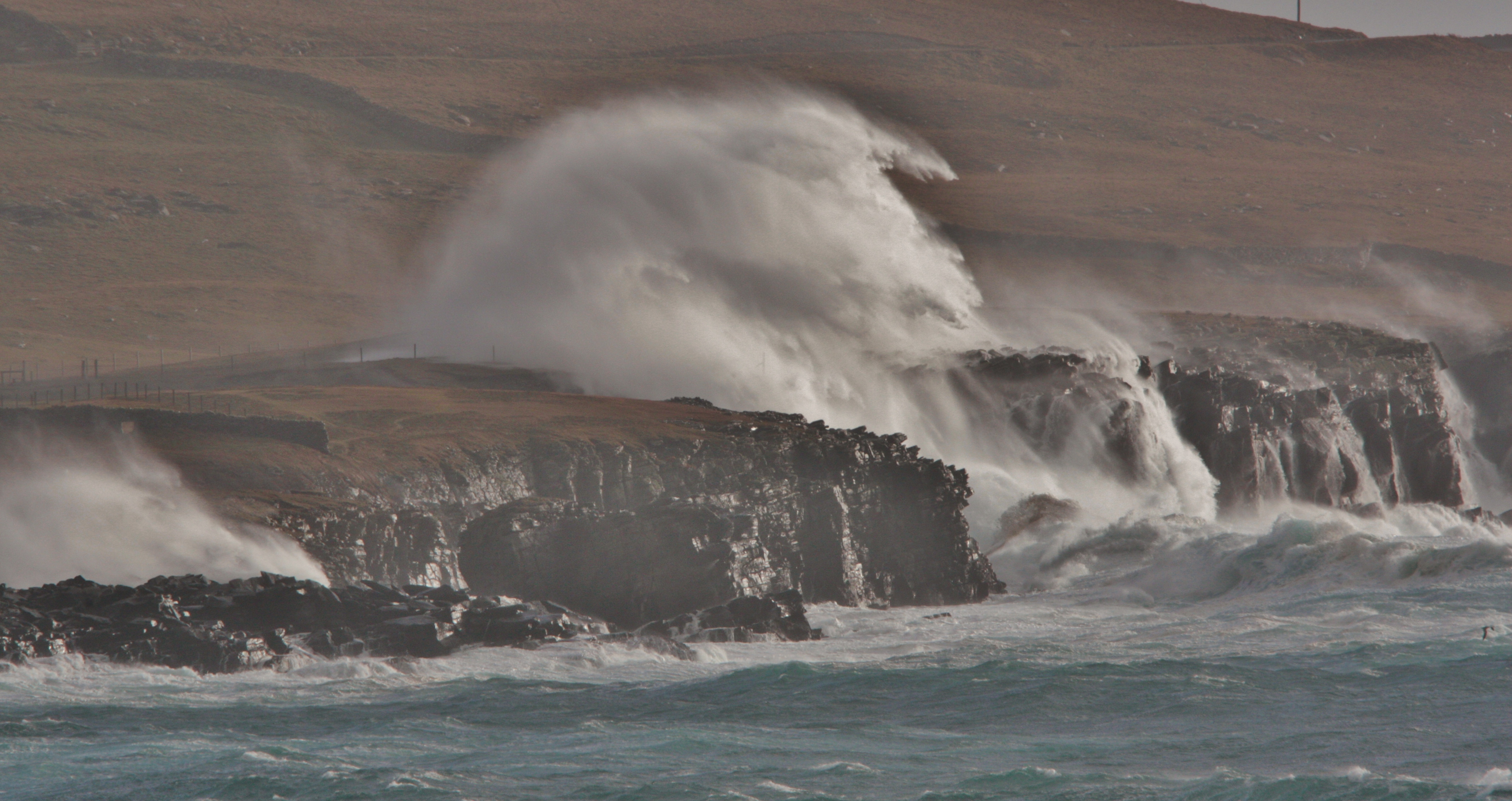 Waves battering Shetland during Storm Abigail